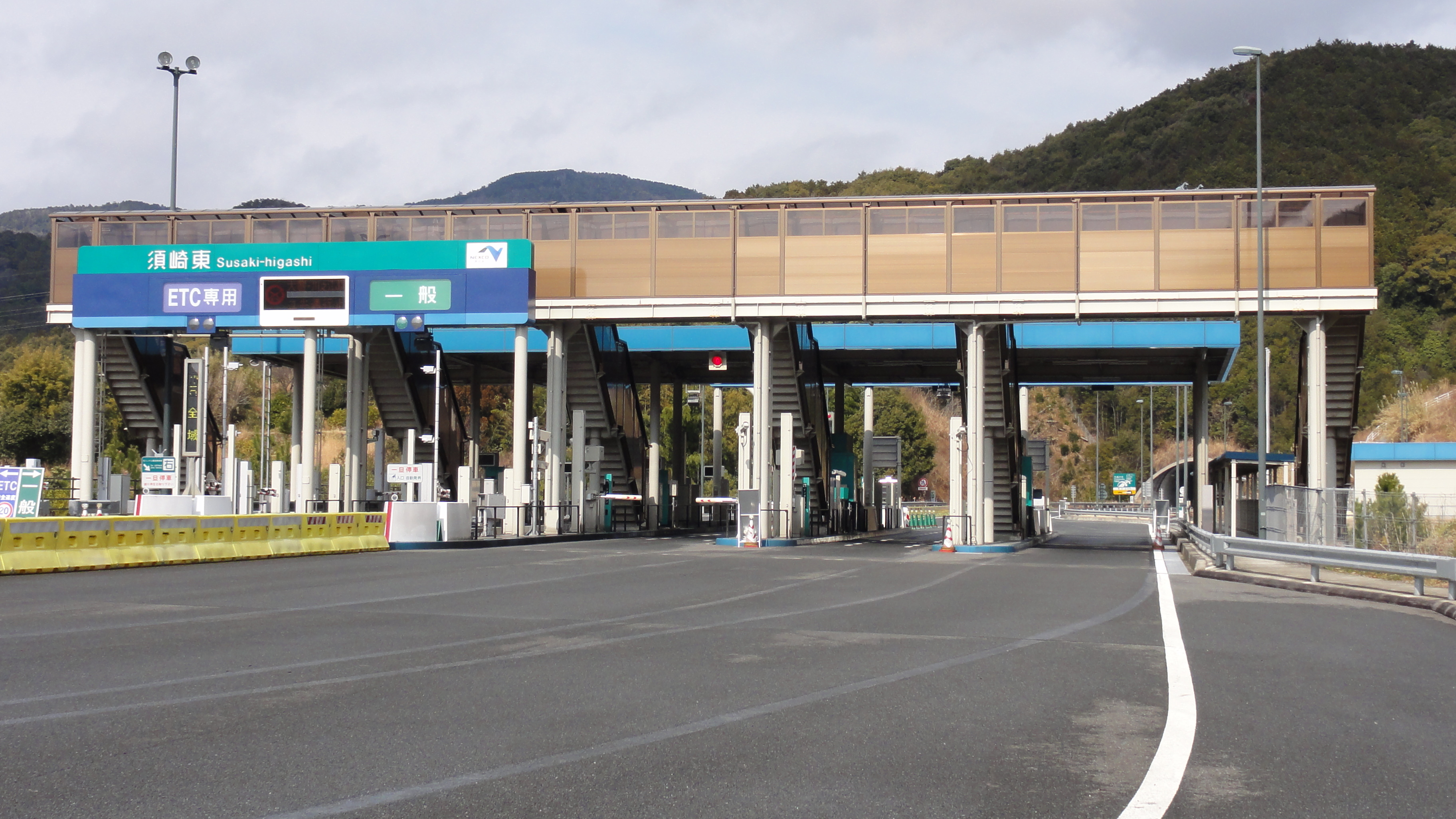 Susaki-Higashi main linet toll gate,Kochi pref..,Japan